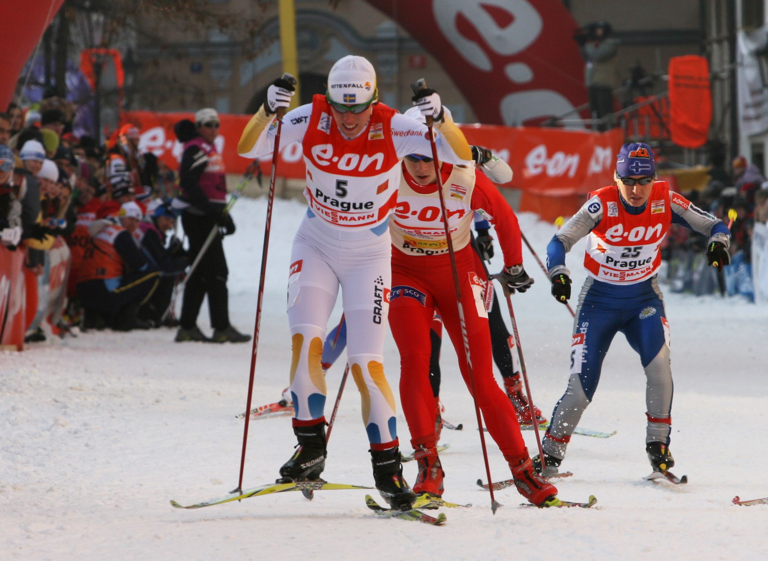 Charlotte Kalla (number 5 in the lead) in the quaterfinals of Tour de ski in Prague